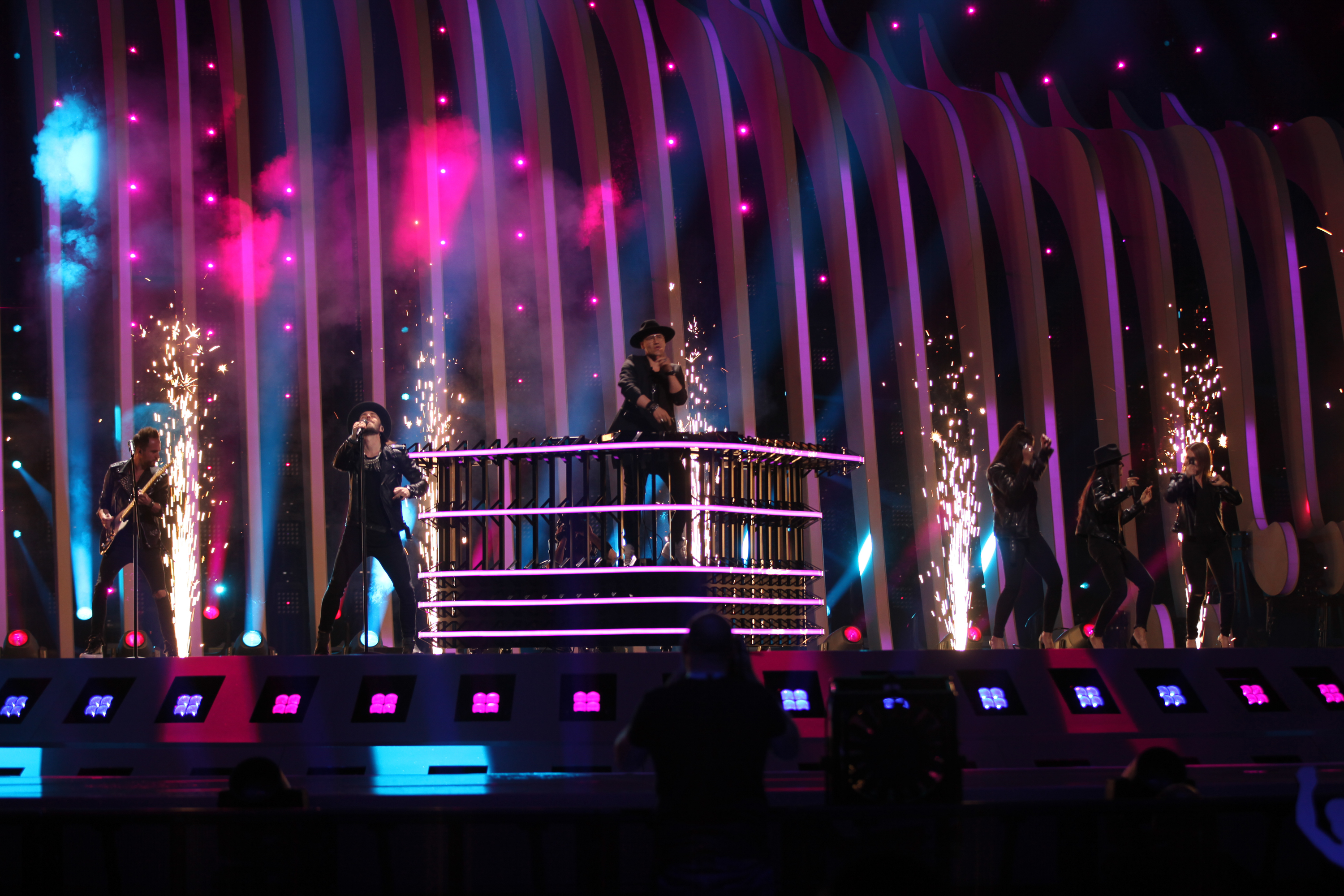 Gromee feat. Lukas Meijer representing Poland with the song "Light Me Up" during a rehearsal before the second semi final of the Eurovision Song Contest 2018 in Lisbon.